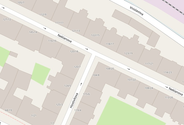 This map may be incomplete, and may contain errors. Don't rely solely on it for navigation.